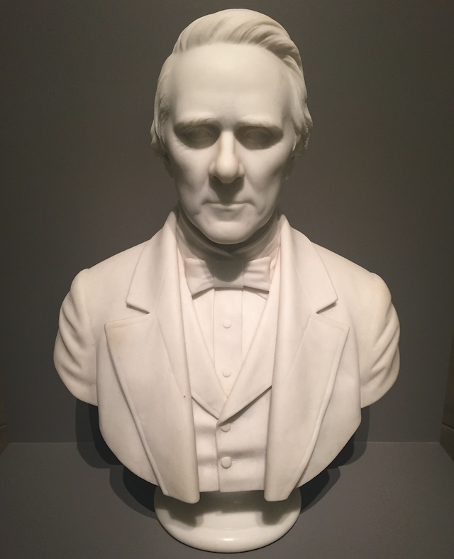 Bust of Benjamin E. Bates, industrialist, textile tycoon; namesake of Bates College